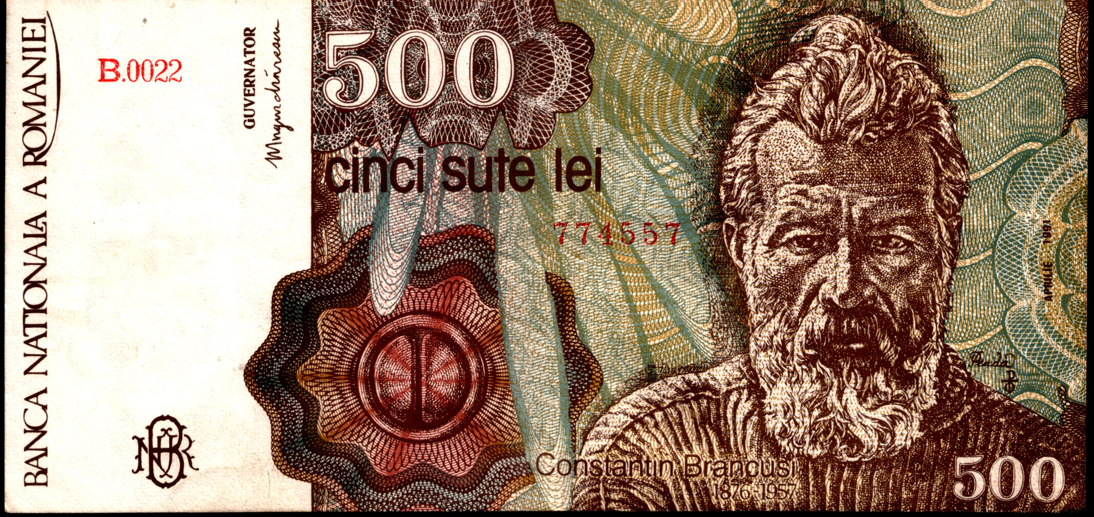 500 Romanian leu from 1991 - obverse